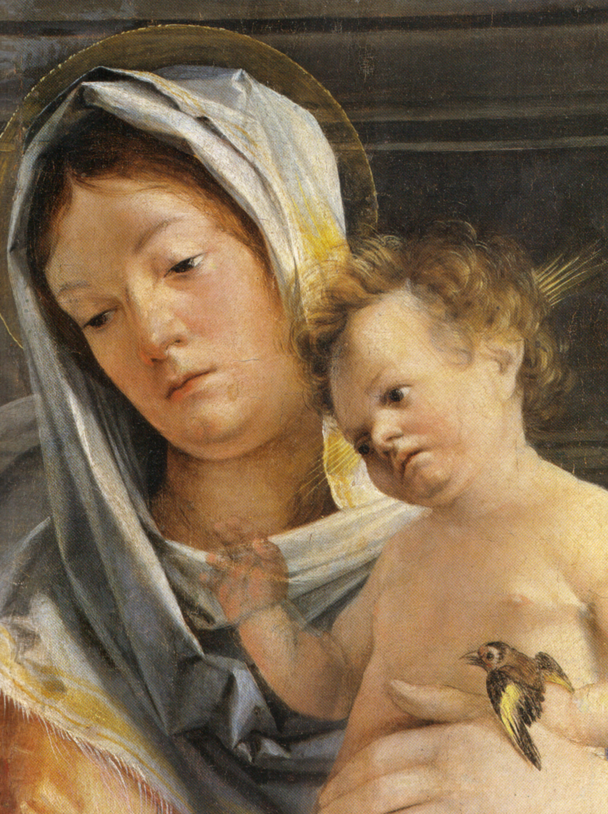 detail: Madonna and Child